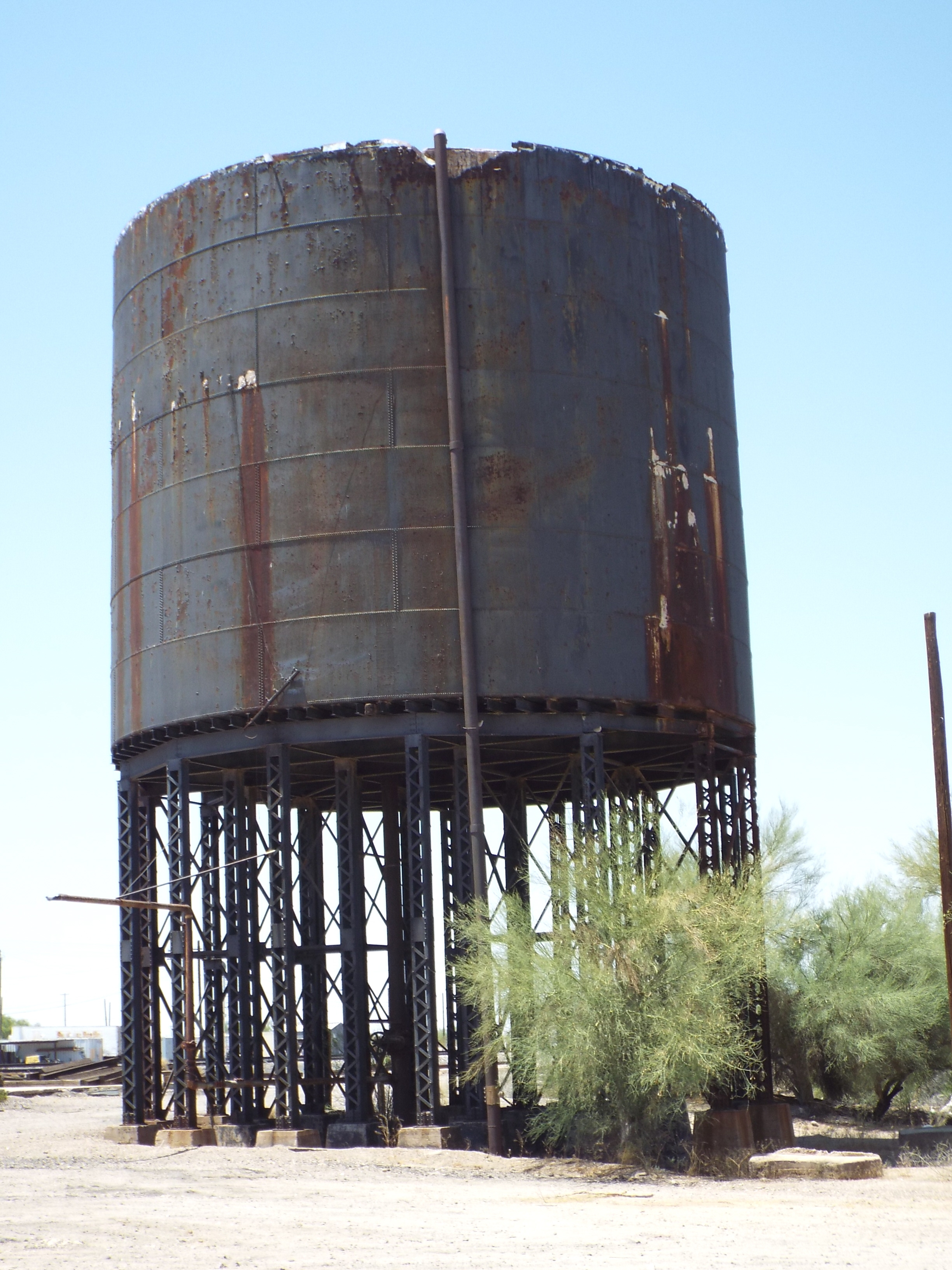 The Gila Bend Steam Locomotive Water Stop was built in 1900 and is located close to Murphy Street in Gila Bend, Az.